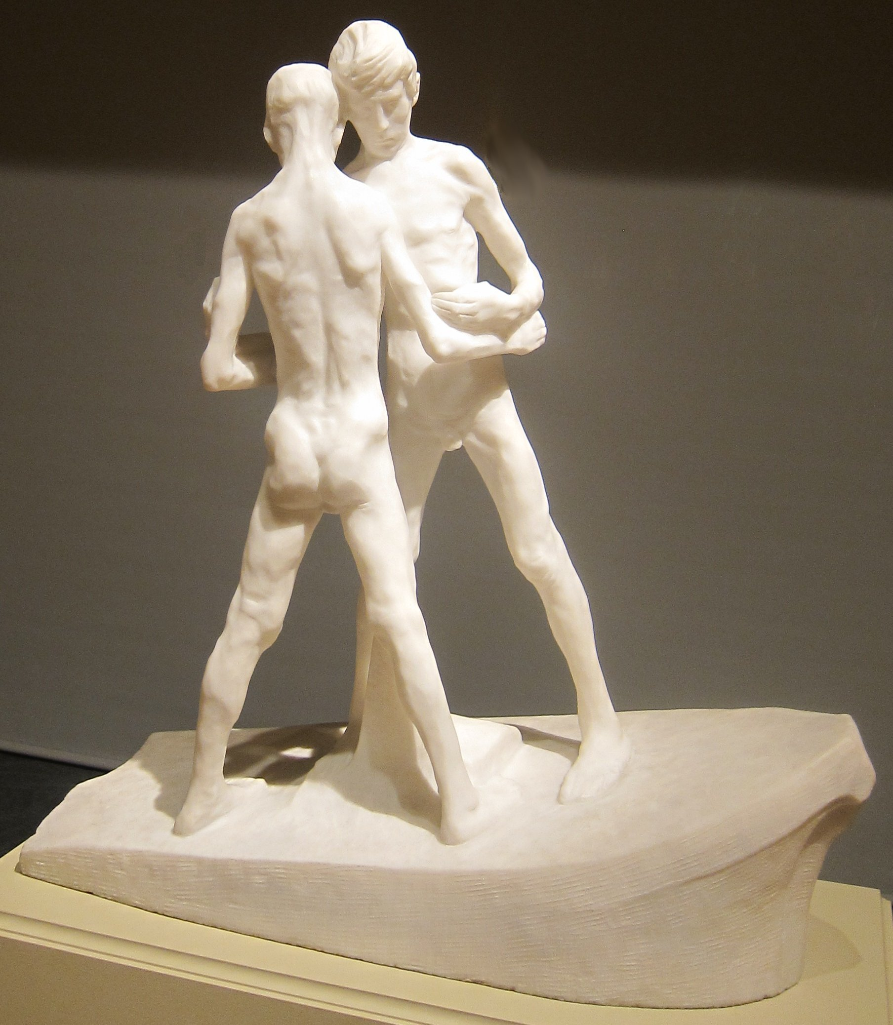 Solidarity, marble sculpture by Georges Minne, 1898, Cleveland Museum of Art.JPG